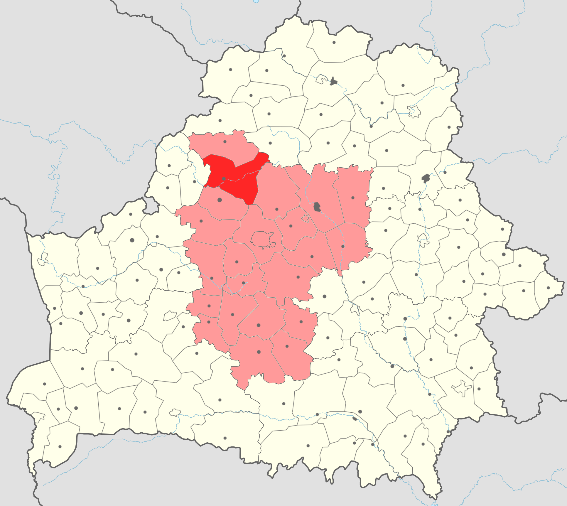 Map of Viliejski rayon (in red) with Minsk voblast' (in light red) on the map of Belarus.